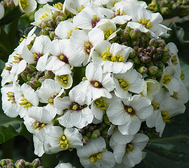 Sea Kale (Crambe maritima) Detail of an exceptionally fine flower head.